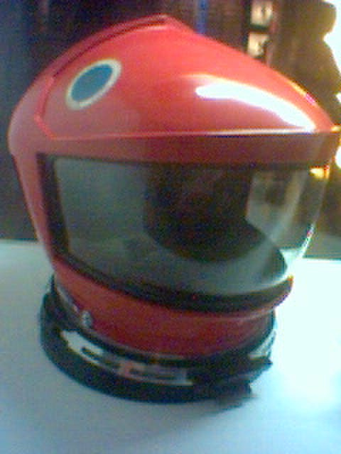 Dr. David Bowman's helmet from the film 2001 : A Space Odyssey at the exhibition Stanley Kubrick: Inside the mind of a visionary filmaker in Melbourne.